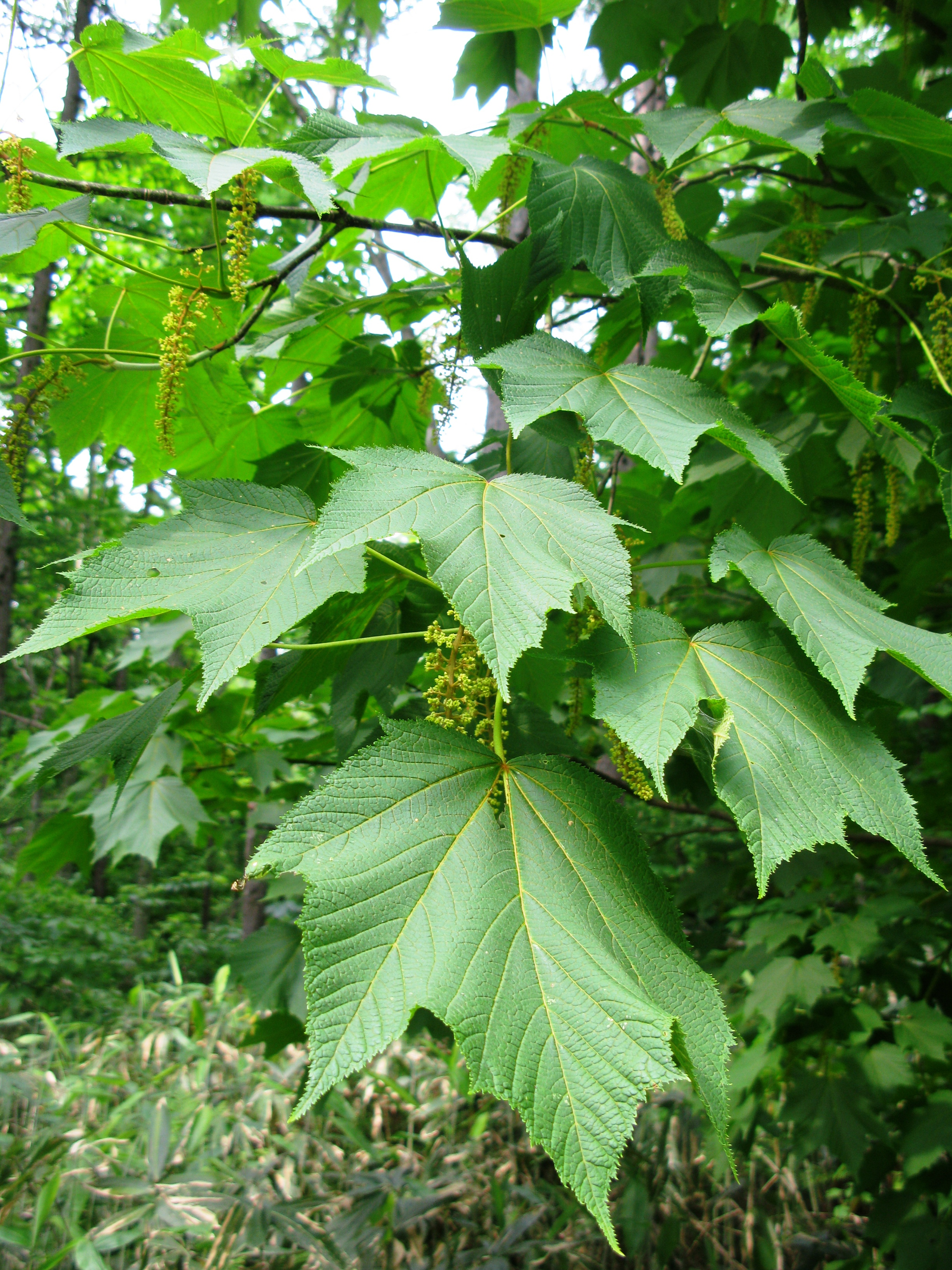 Acer nipponicum, Aizu area, Fukushima pref., Japan